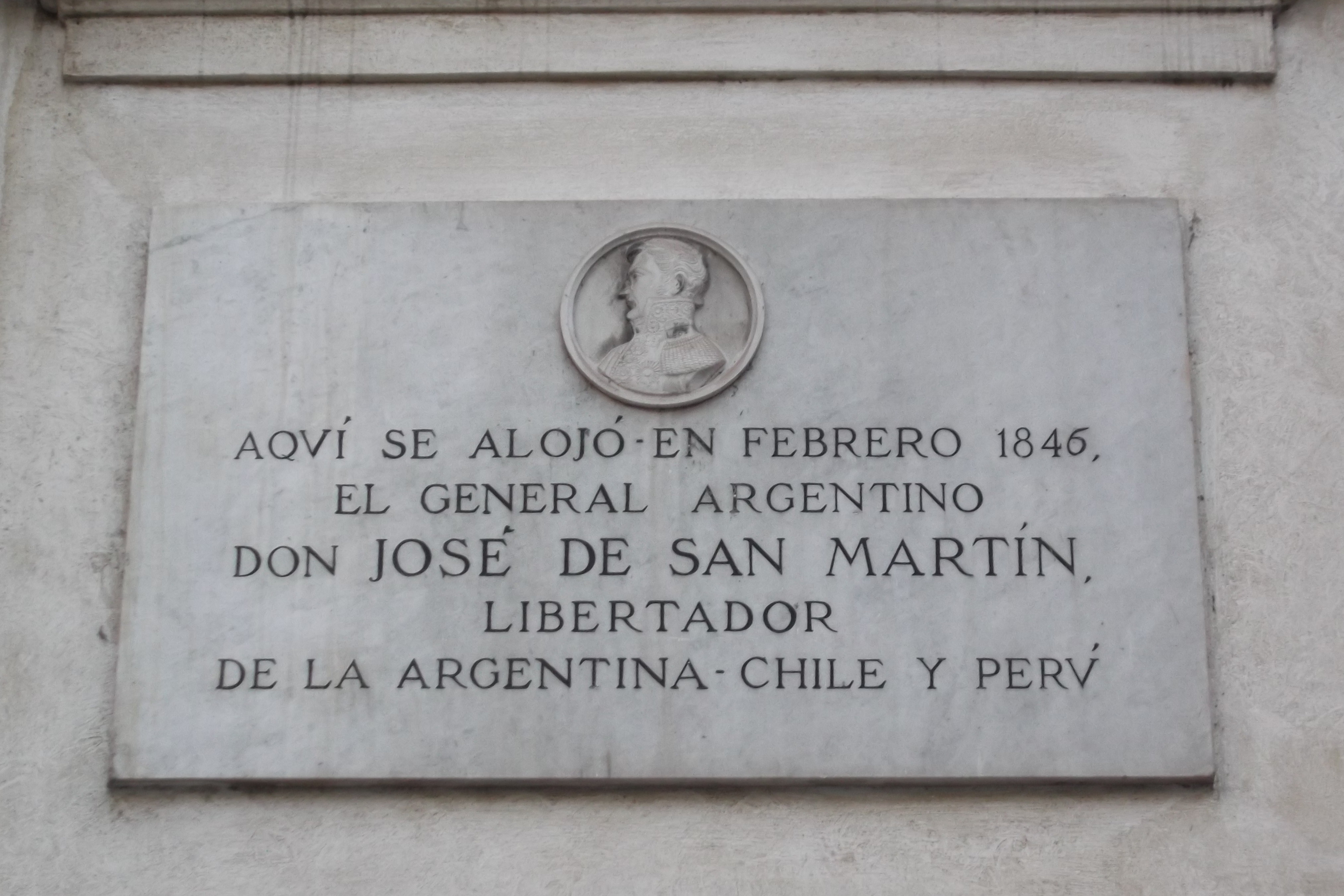 A here-has-been plaque in Spanish to the Argentine general José de San Martín who sojourned in February 1846 in Rome in the building currently known as Hotel Minerva.